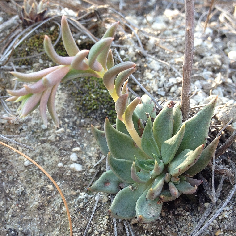 A complete view of Echeveria heterosepala (Crassulaceae), a succulent plant endemic to the Mexican states of Oaxaca, Puebla and Veracruz. This photo was taken at the slopes of cerro Pinto in Oriental, Puebla. The picture was also uploaded to iNaturalist